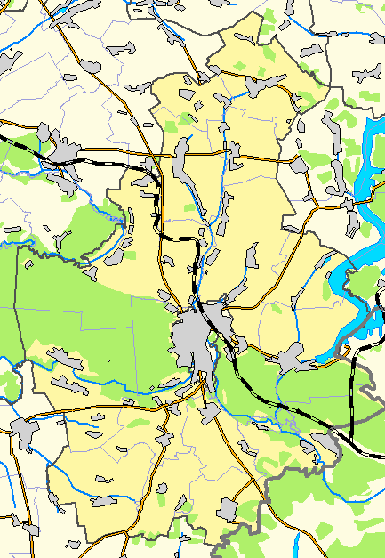 Map of Iziumsli raion, Kharkiv oblast, Ukraine